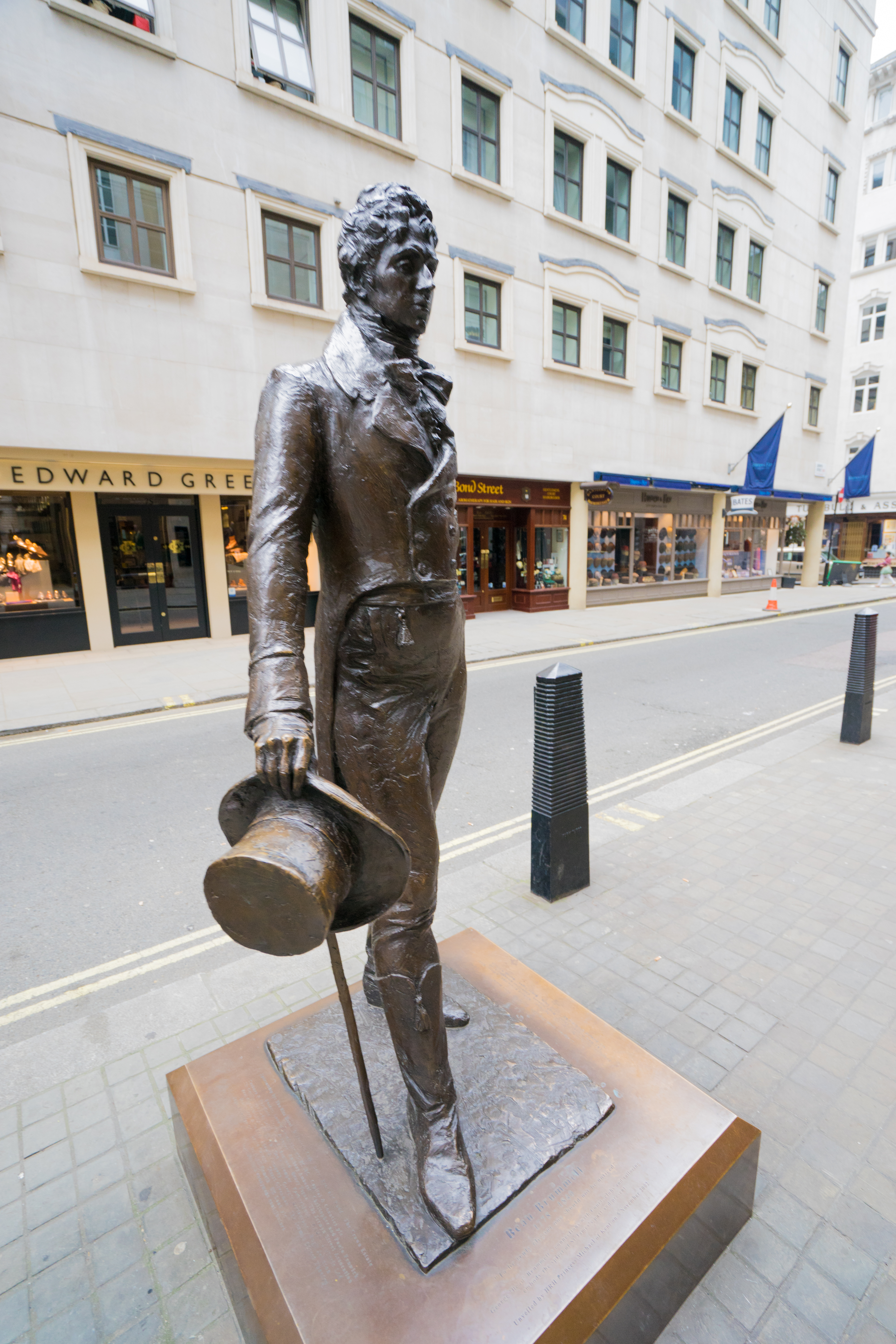 Statue of Beau Brummell on Jermyn Street, London. Photo taken June 2009 by DonJay